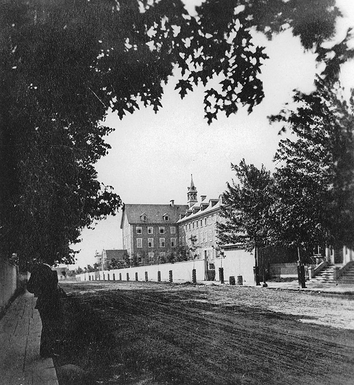 MP-0000.869.4 Grey Nuns Convent building seen from Guy Street, Montreal, QC, about 1875 Anonymous About 1880, 19th century Notman photographic Archives - McCord Museum MP-0000.869.4 Le couvent des Soeurs Grises depuis la rue Guy, Montréal, QC, vers 1875 Anonyme Vers 1880, 19e siècle Archives photographiques Notman - Musée McCord To see the image file on the McCord Museum website, click on the following link: Pour voir la fiche descriptive de cette photographie sur le site Web du Musée McCord, cliquer le lien suivant